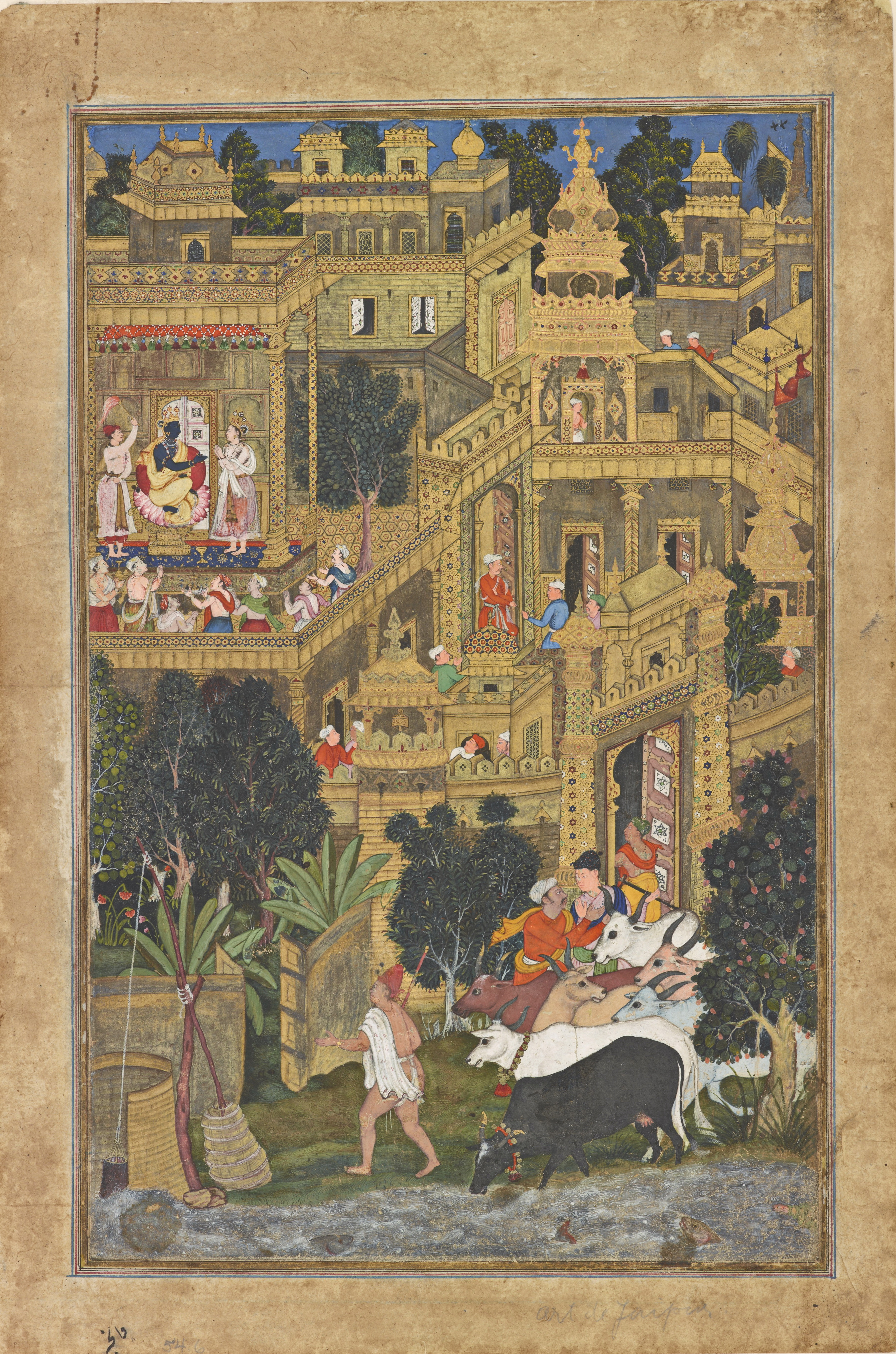 The Lord Krishna in the Golden City from the Harivamsha (Geneology of Vishnu) Opaque watercolor and gold on paper H: 34.9 W: 23.2 cm India The painting represents the mythical city of Dwarka, where the blue-skinned Krishna, an incarnation of the Hindu God Vishnu, is enthroned on a golden palace and surrounded by his kinsmen. A pastoral scene in the foreground evokes a familiar village setting and a sense that the gods are present in everyday life. This manuscript was painted for the Mughal emperor Akbar (r. 1556–1605) who was quite interested in other religions. Akbar had translations made of major Hindu texts, including the Sanskrit epic the Mahabharata(Great Story of the Bharatas), known in its Persian translation as Razmnama (Book of Wars). This page is from a section appended to the Razmnama known as the Harivamsa (Genealogy of Vishnu), which narrates of the life of Krishna.